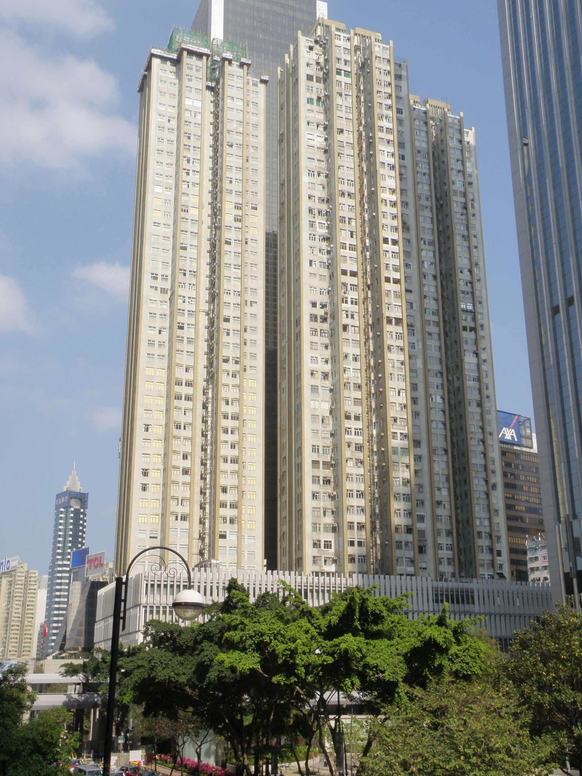 Causeway Centre in Wan Chai, Hong Kong.